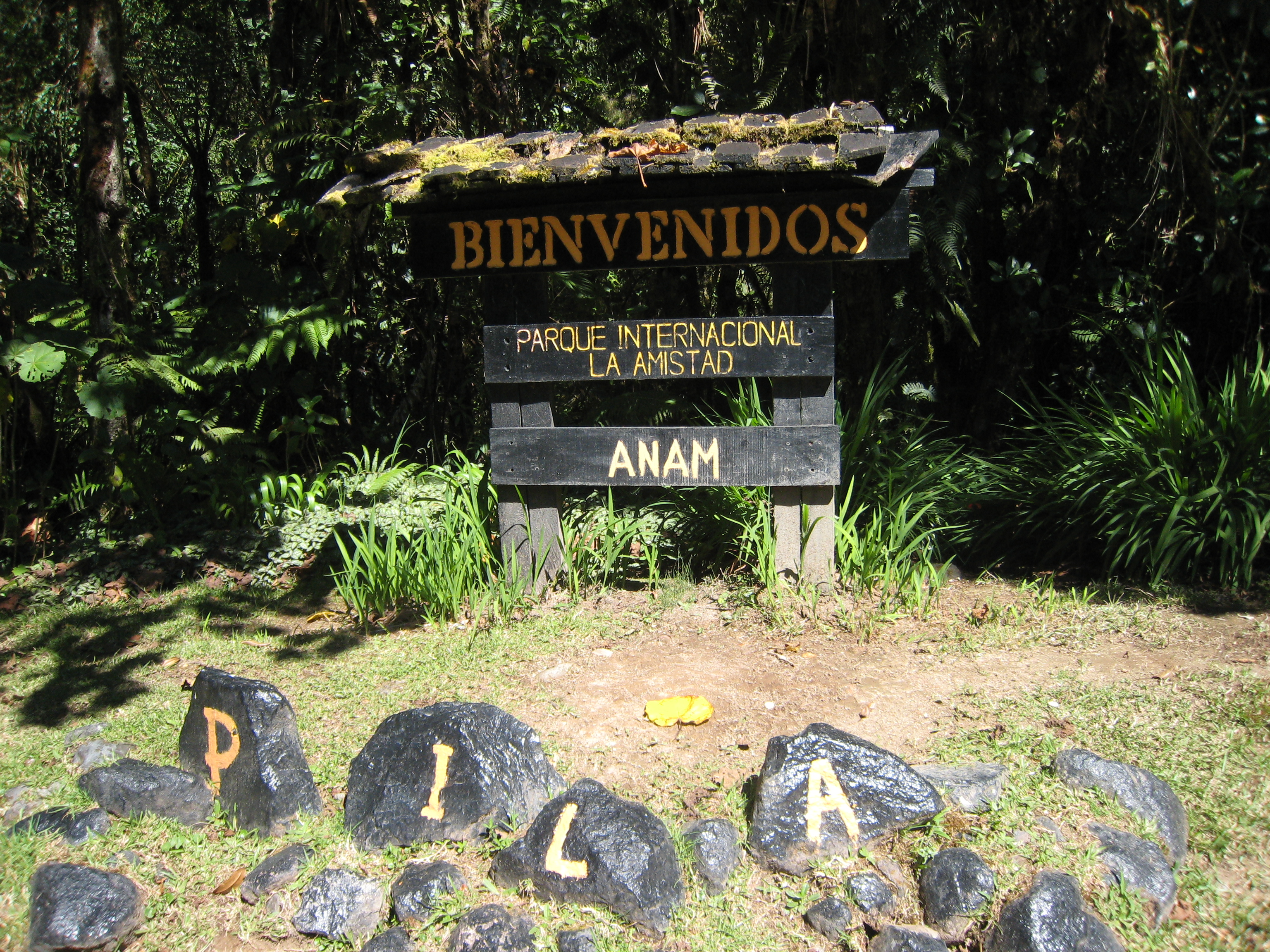 Entry sign, La Amistad, Las Nubes, Panama